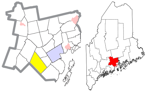 Map of the divisions of Waldo County, Maine, United States, with the town of Searsmont highlighted in yellow. The city of Belfast is light blue; other towns are white; and pink areas are census-designated places within towns.